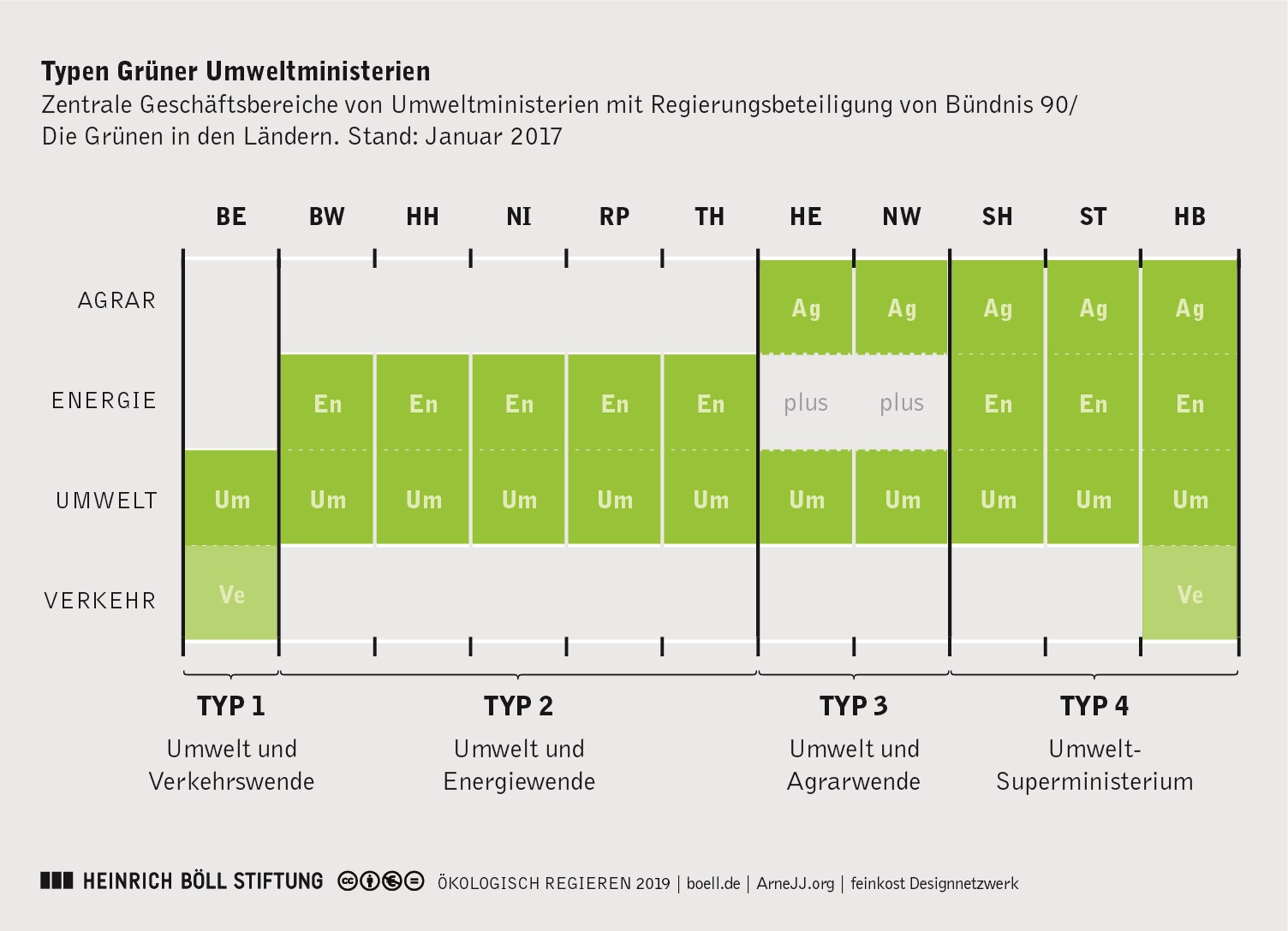 Es werden vier verschiedene Typen unterschieden. 1) Umwelt und Verkehrswende, 2) Umwelt und Energiewende, 3) Umwelt und Agrarwende, 4) Umwelt-Superministerien